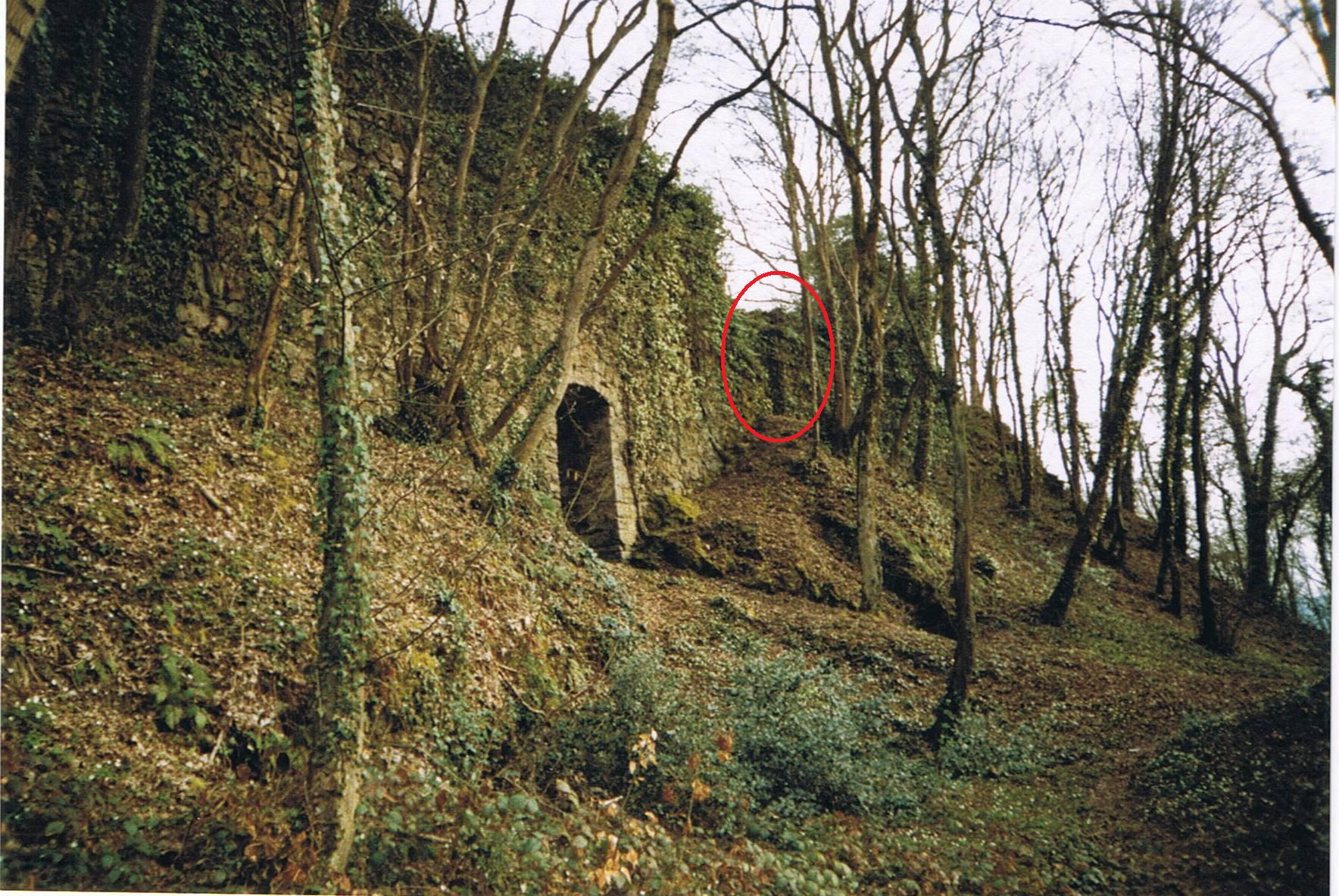 Castle Hauenstein, main gate. Red framed is the attached new wall part to the old palace